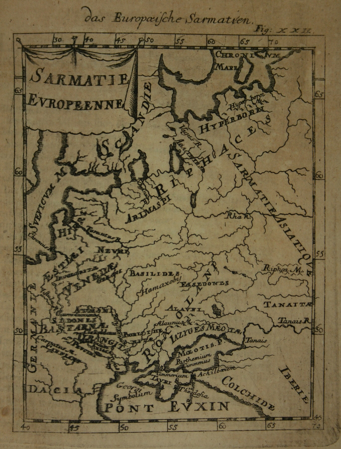 Map of Sarmatia in Europe, Description de L'Universe (Alain Manesson Mallet, 1685).jpg